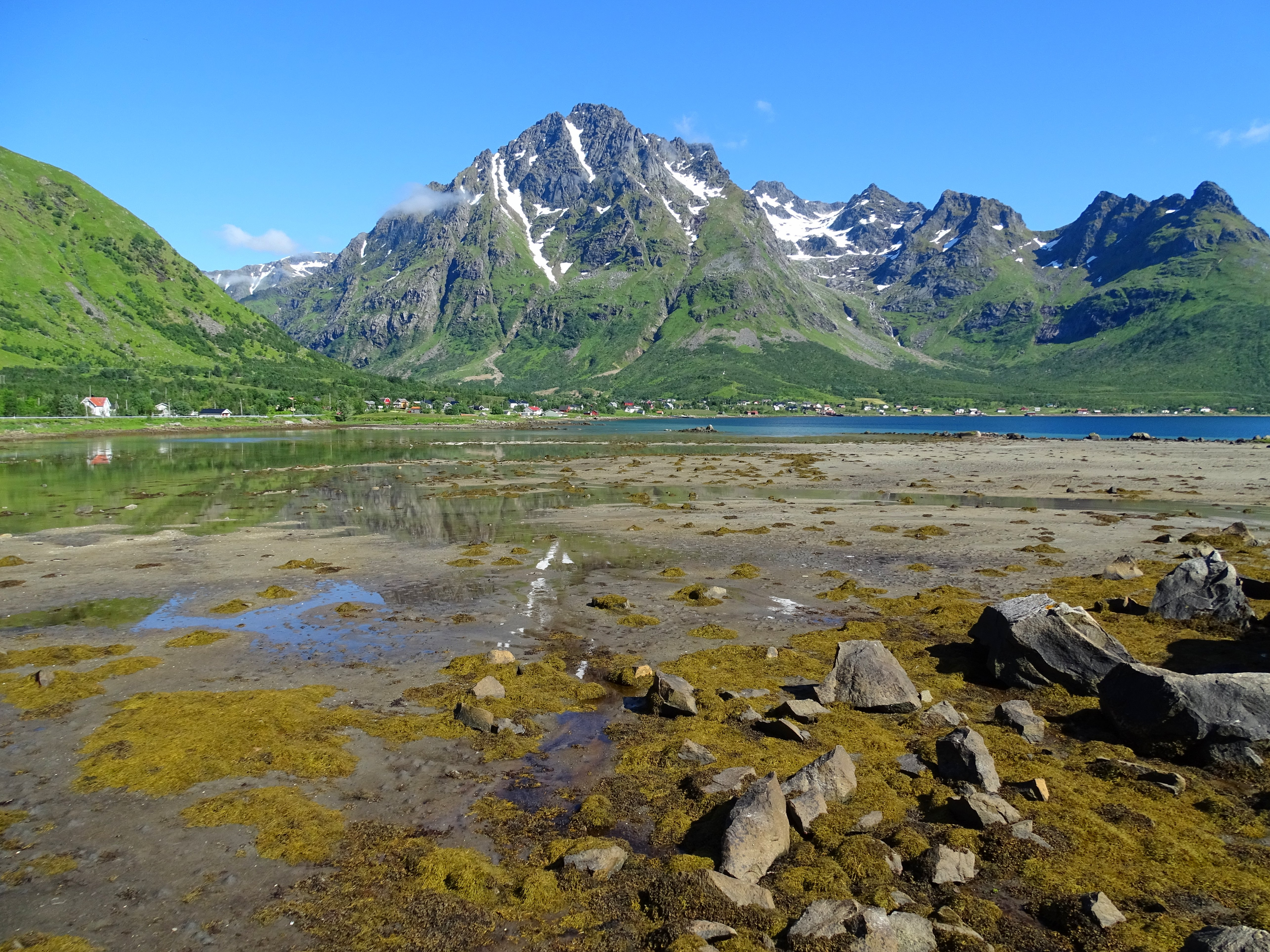 Laupstad og Eide innerst i Austnesfjorden, i Vågan kommune. I bakgrunnen ser vi fjellet Higravstind, det høyeste fjellet i Lofoten.